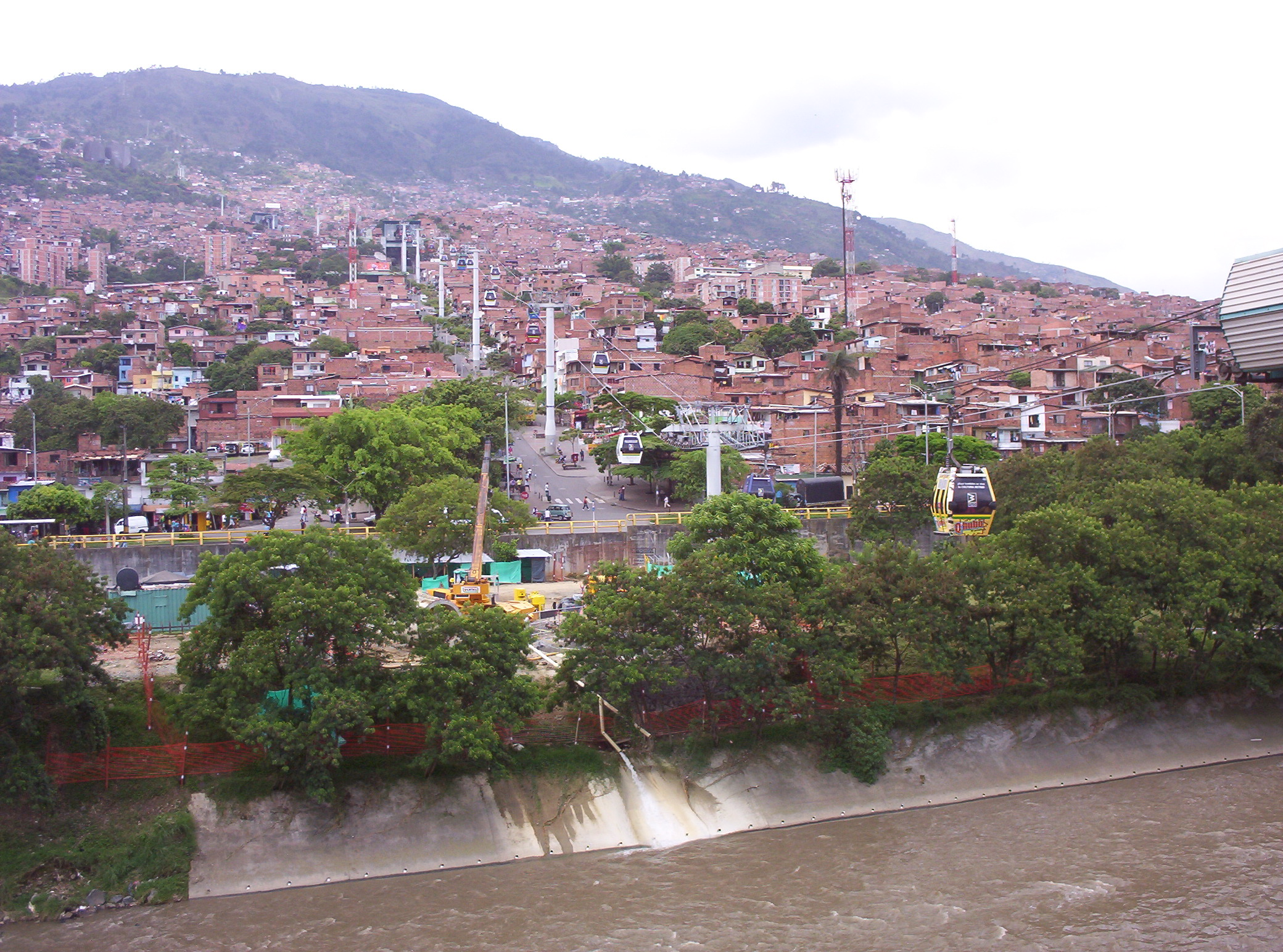 Metro cable medellin